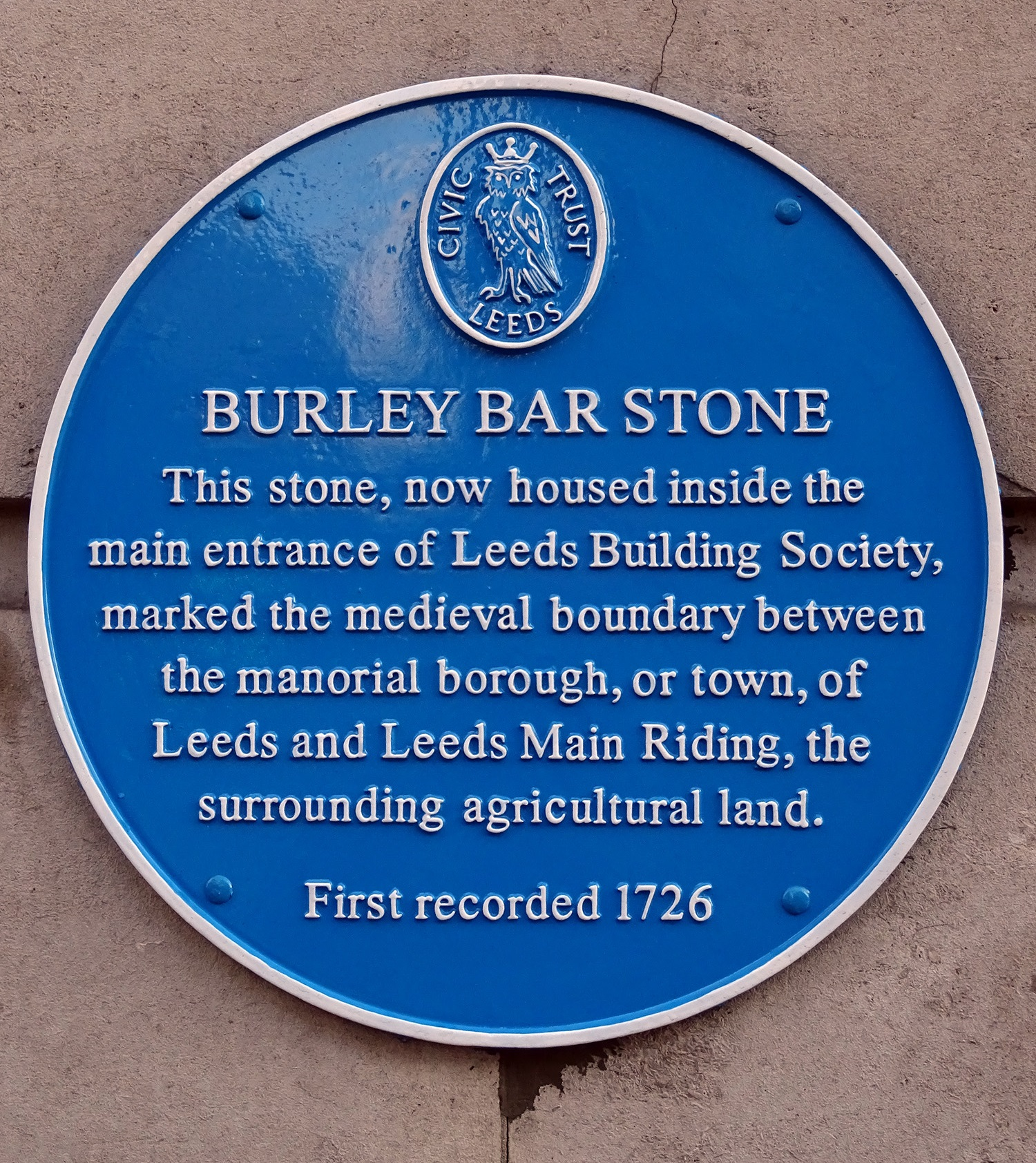 Blue plaque erected by Leeds Civic Trust at The Headrow, Leeds, West Yorkshire LS1